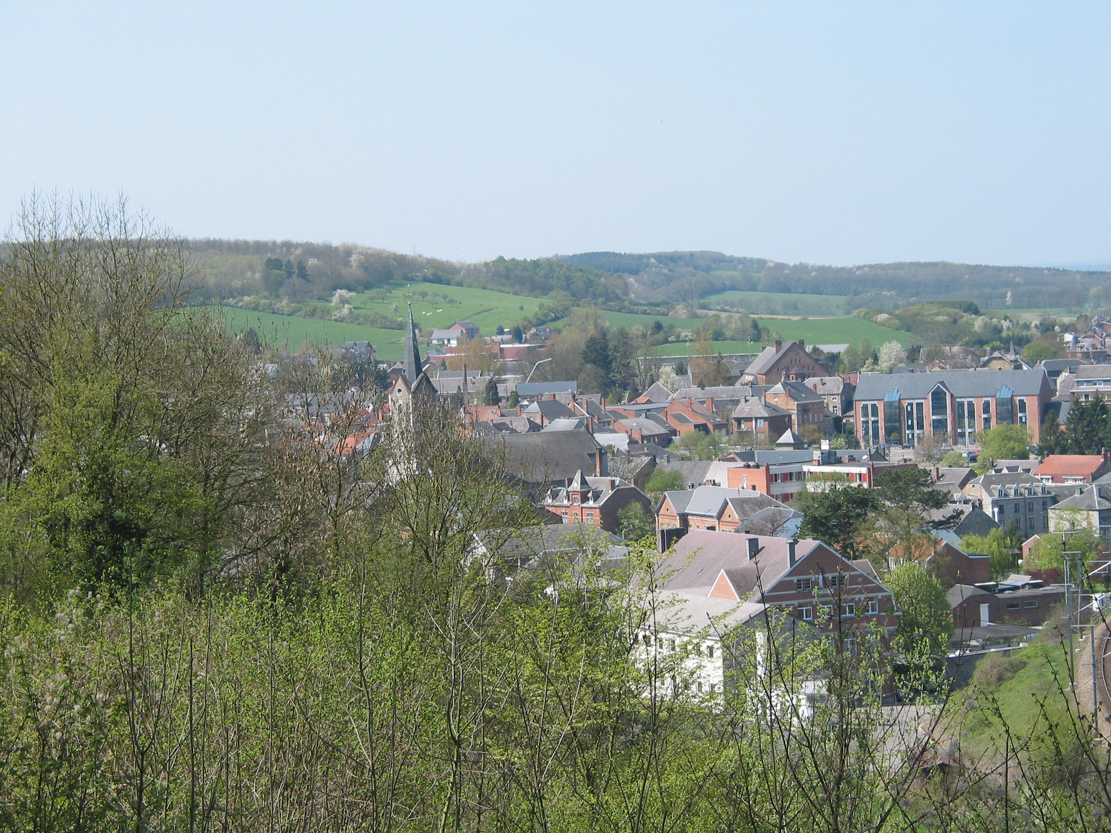 Beauraing (Belgium), view of the town.